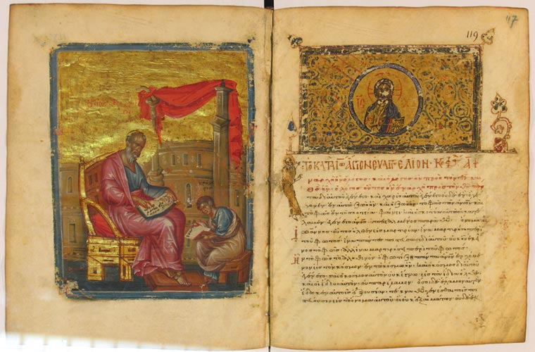 Folios 116v-117r of the codex; Miniature of John the Evangelist on folio 116v; folio 117r contains the first page of the Gospel of John, with the decorated headpiece and decorated initial letter epsilon